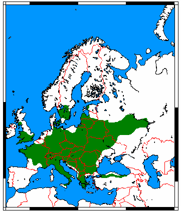 Range map for Hazel Dormouse (Muscardinus avellanarius), map made with help of Map depending on the range map at IUCN red list.